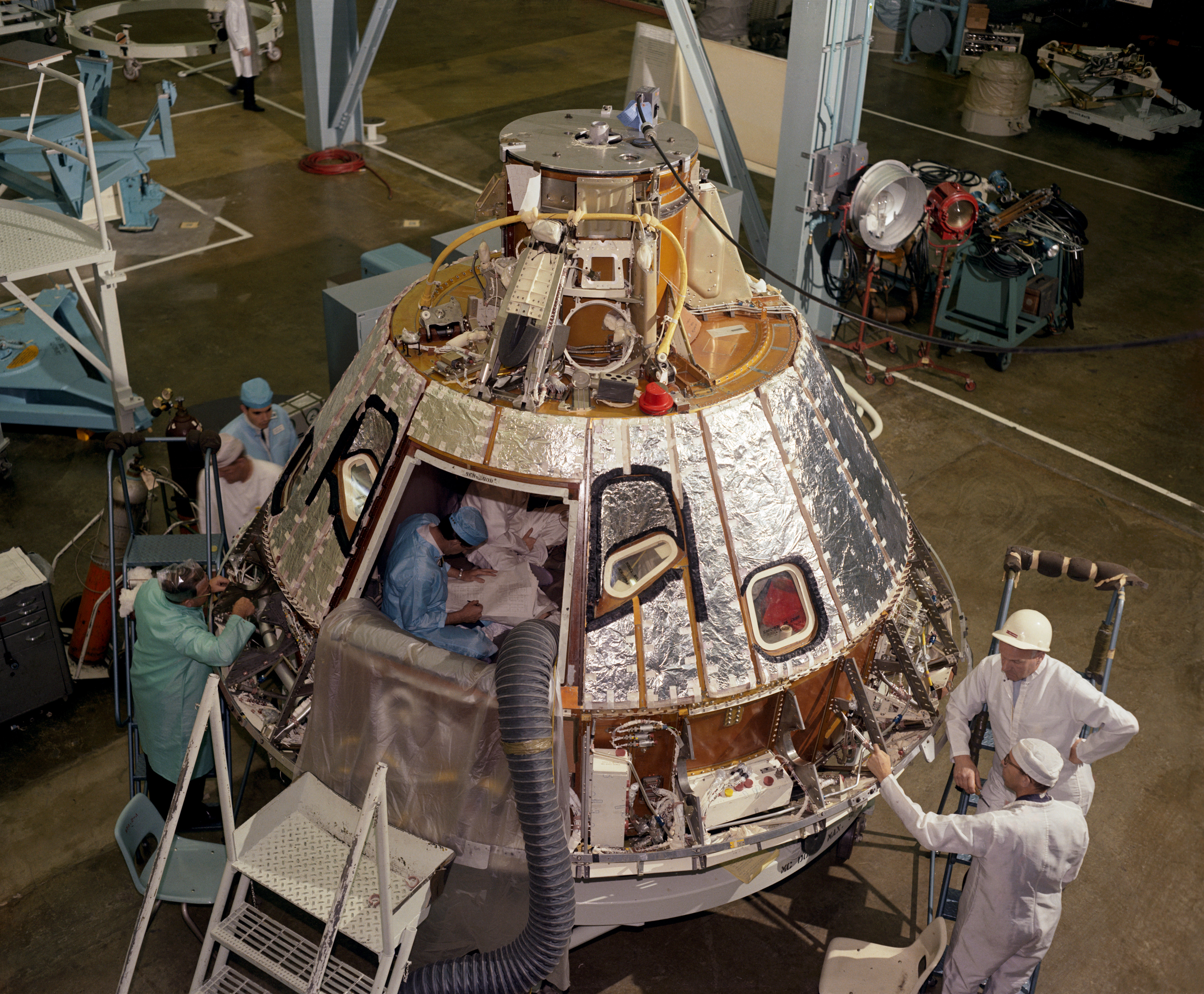 High angle view of Spacecraft 012 Command Module, looking toward -Z axis, during preparation for installation of the crew compartment heat shield, showing mechanics working on aft bay.